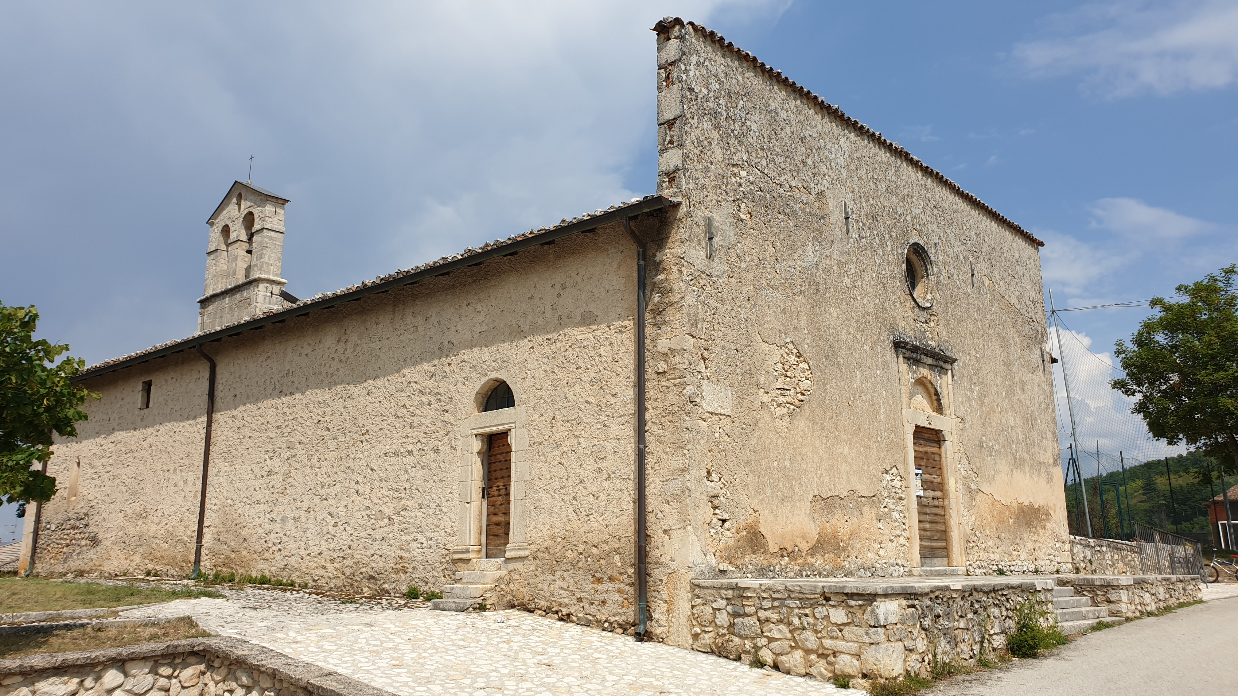 San Panfilo d'Ocre